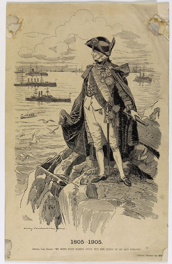 A cartoon from the magazine, ‘Punch’, 18 October 1905, acknowledging the British debt to Nelson in the centenary week of his death. Nelson views the modern new ships of the Royal Navy, but acknowledges that the old fighting spirit remains the same.